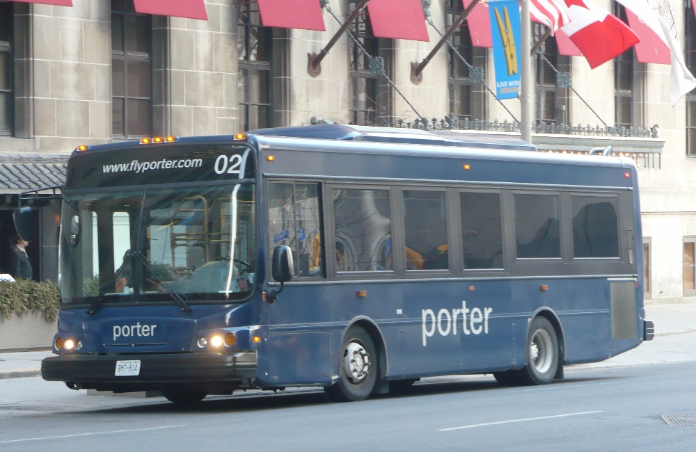 Porter Airlines shuttle bus outside the Royal York Hotel in Toronto